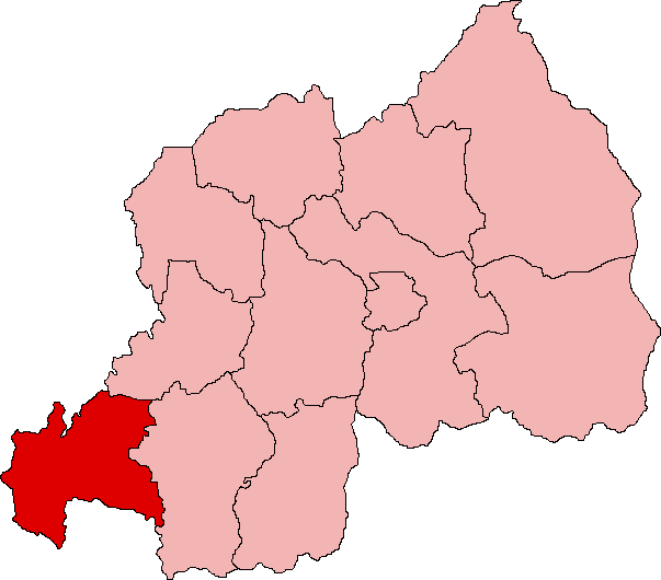 Map of Rwanda showing Cyangugu Province; created with the GIMP. Made by User:Acntx.